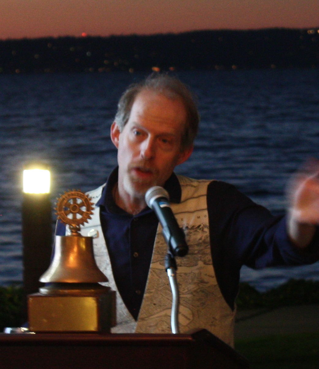 David Williams (author) speaking to the Kirkland Chamber of Commerce outside the Woodmark Hotel on Lake Washington.